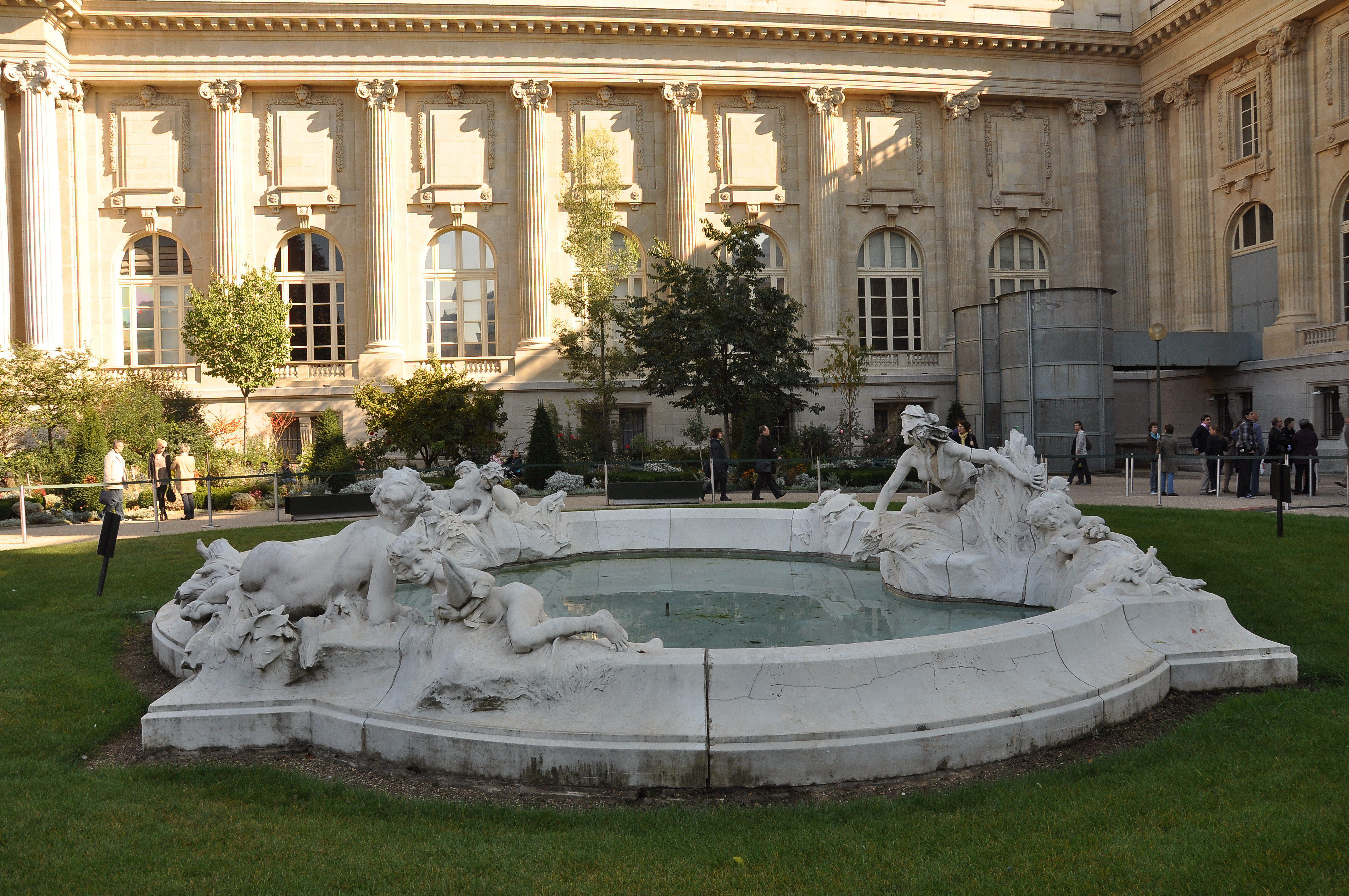 Square Jean Perrin in the Jardins of Champs-Elysées in Paris, 8th district, France. In foreground Fountain Miroir d'eau of François-Raoul Larche.